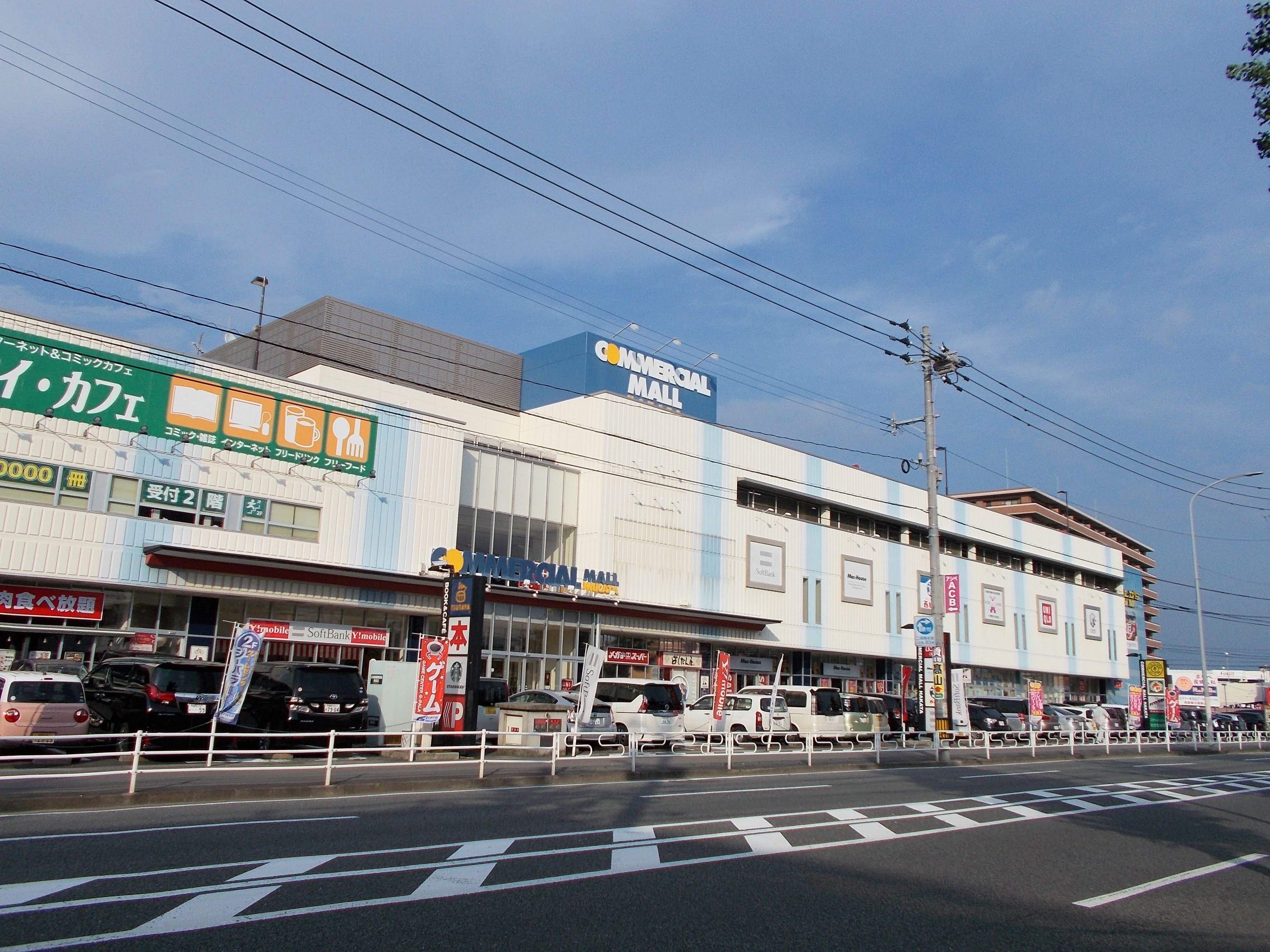 Commercial Mall Hakata is a shopping complex in Hakata-ku, Fukuoka, Japan